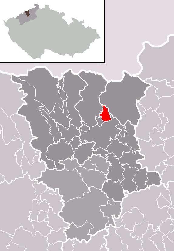 Location of Proboštov municipality within Teplice District and administrative area of Teplice as a Municipality with Extended Competence.